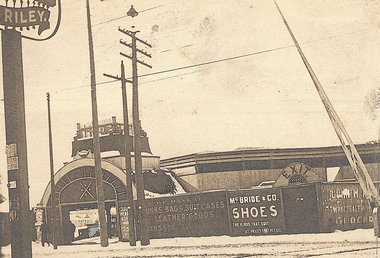 Star Park, at Taylor and Salina, Syracuse, in 1885. Home of the Syracuse Stars baseball team. Courtesy of the Onondaga Historical Association.